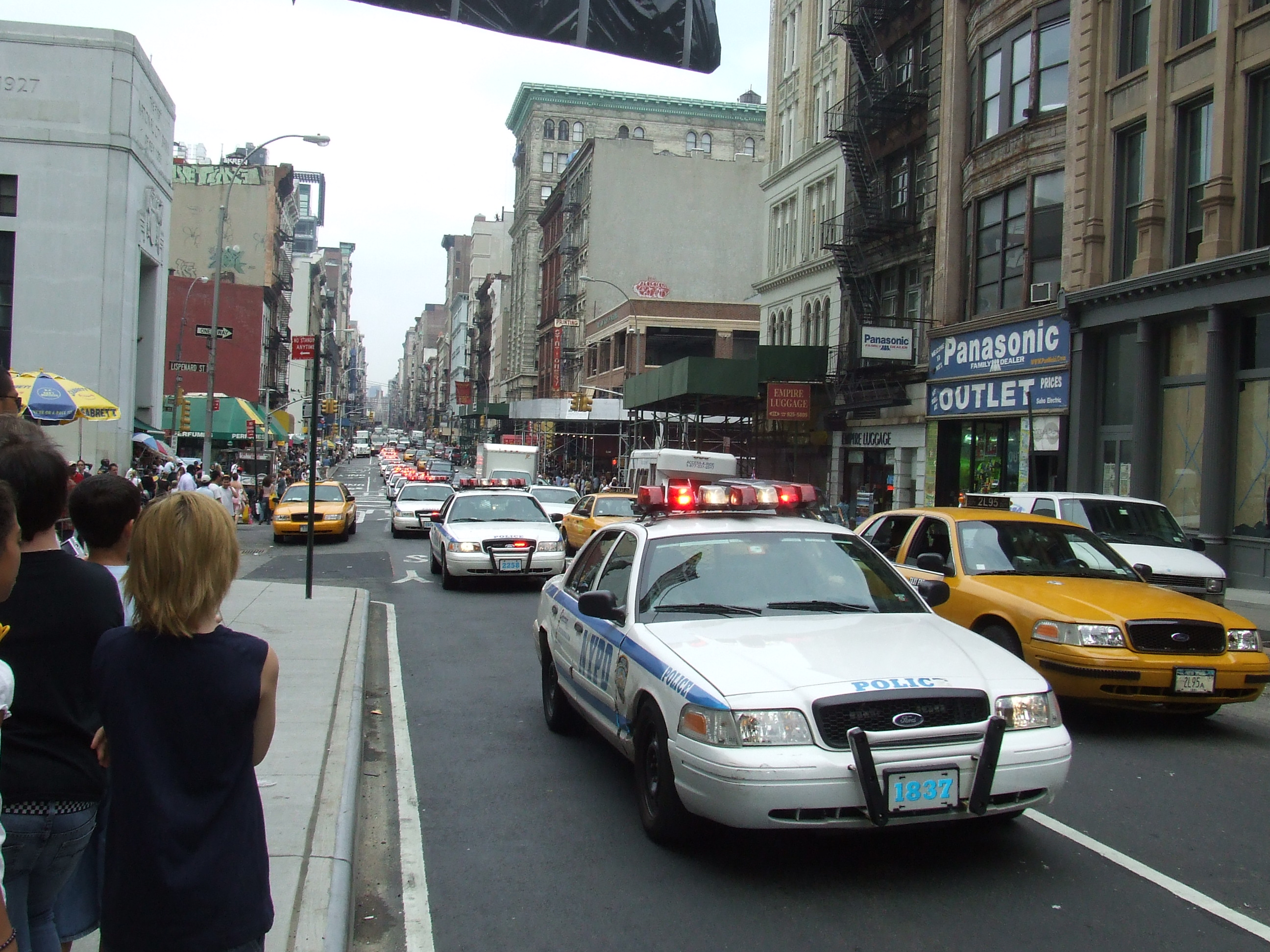 NYPD on Broadway passing Canal and Lispenard Streets.